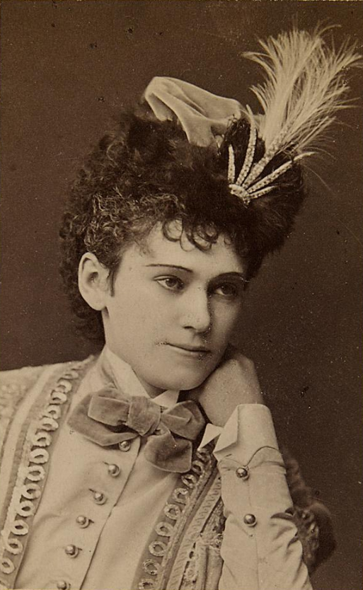 Austrian soprano Irma Nittinger as Price Orlofsky in Johann Strauss' "Die Fledermaus" (1874)